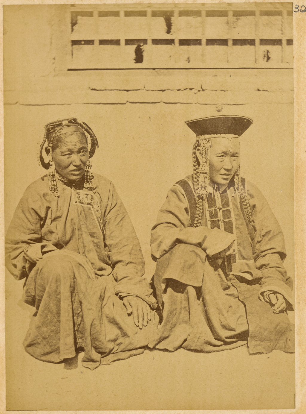 In 1874-75, the Russian government sent a research and trading mission to China to seek out new overland routes to the Chinese market, report on prospects for increased commerce and locations for consulates and factories, and gather information about the Dungan Revolt then raging in parts of western China. Led by Lieutenant Colonel Iulian A. Sosnovskii of the army General Staff, the nine-man mission included a topographer, Captain Matusovskii; a scientific officer, Dr. Pavel Iakovlevich Piasetskii; Chinese and Russian interpreters; three non-commissioned Cossack soldiers; and the mission photographer, Adolf Erazmovich Boiarskii. The mission proceeded from Saint Petersburg to Shanghai via Ulan Bator (Mongolia), Beijing, and Tianjin, and then followed a route along the Yangtze River, along the Great Silk Road through the Hami oasis, to Lake Zaysan, back to Russia. Boiarskii took some 200 photographs, which constitute a unique resource for the study of China in this period. Most of the photographs are included in this album, which later became part of the Thereza Christina Maria Collection assembled by Emperor Pedro II of Brazil and given by him to the National Library of Brazil. Memory of the World; Mongols; Portrait photographs; Women